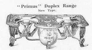 Drawing of 2 burner Primus portable stove